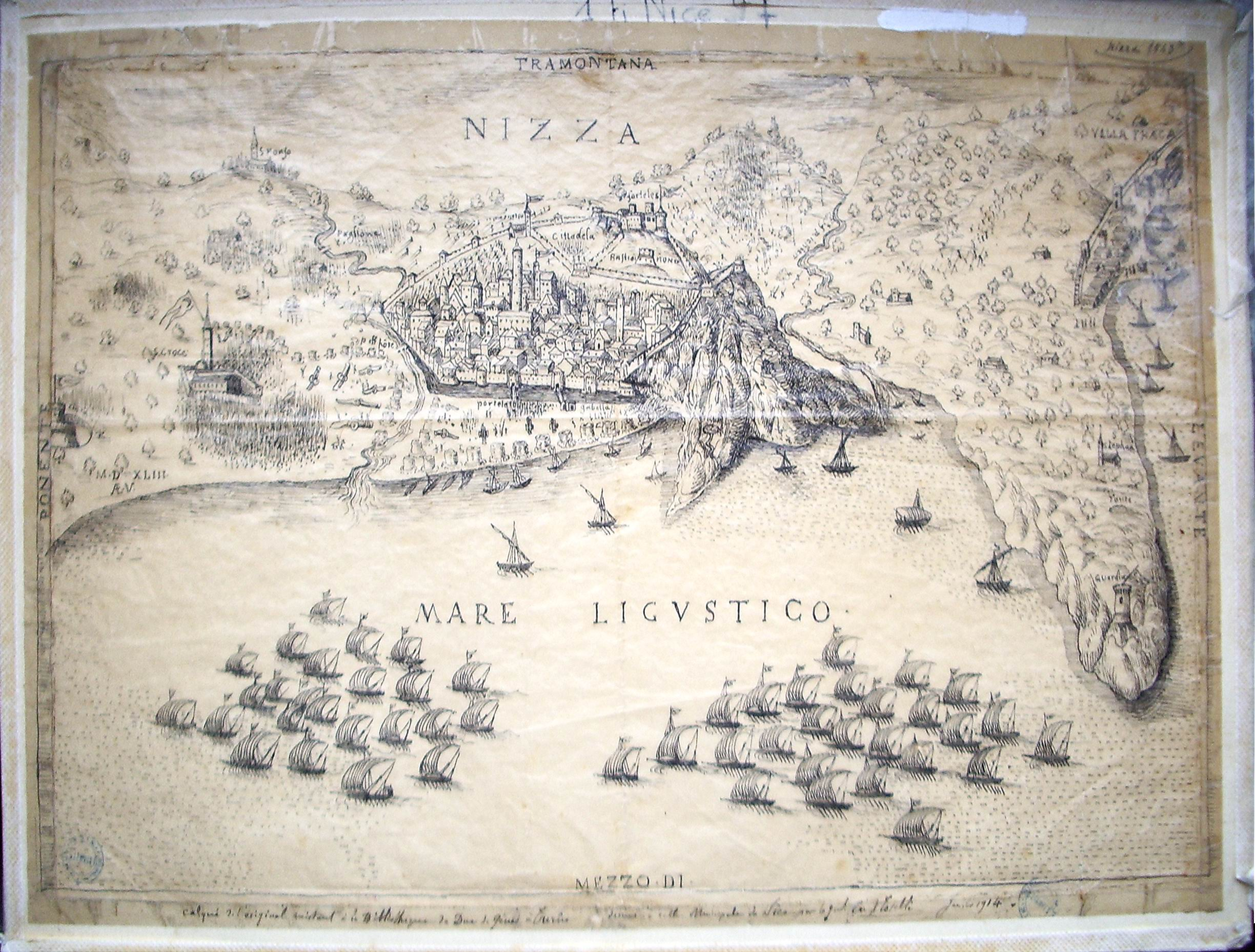 Siège of the fleet othoman and french, in 1543, in front of the remparts of the town of Nice.